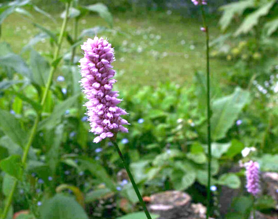 Bistorta officinalis: Flower head.